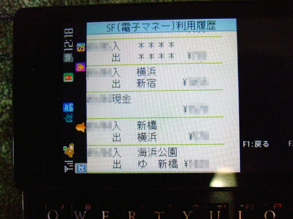 JR East japan Rail Company "Mobile Suica" Chage History.